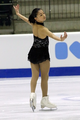 Junior World Championships 2015 (Kaori SAKAMOTO JPN – 6th Place)